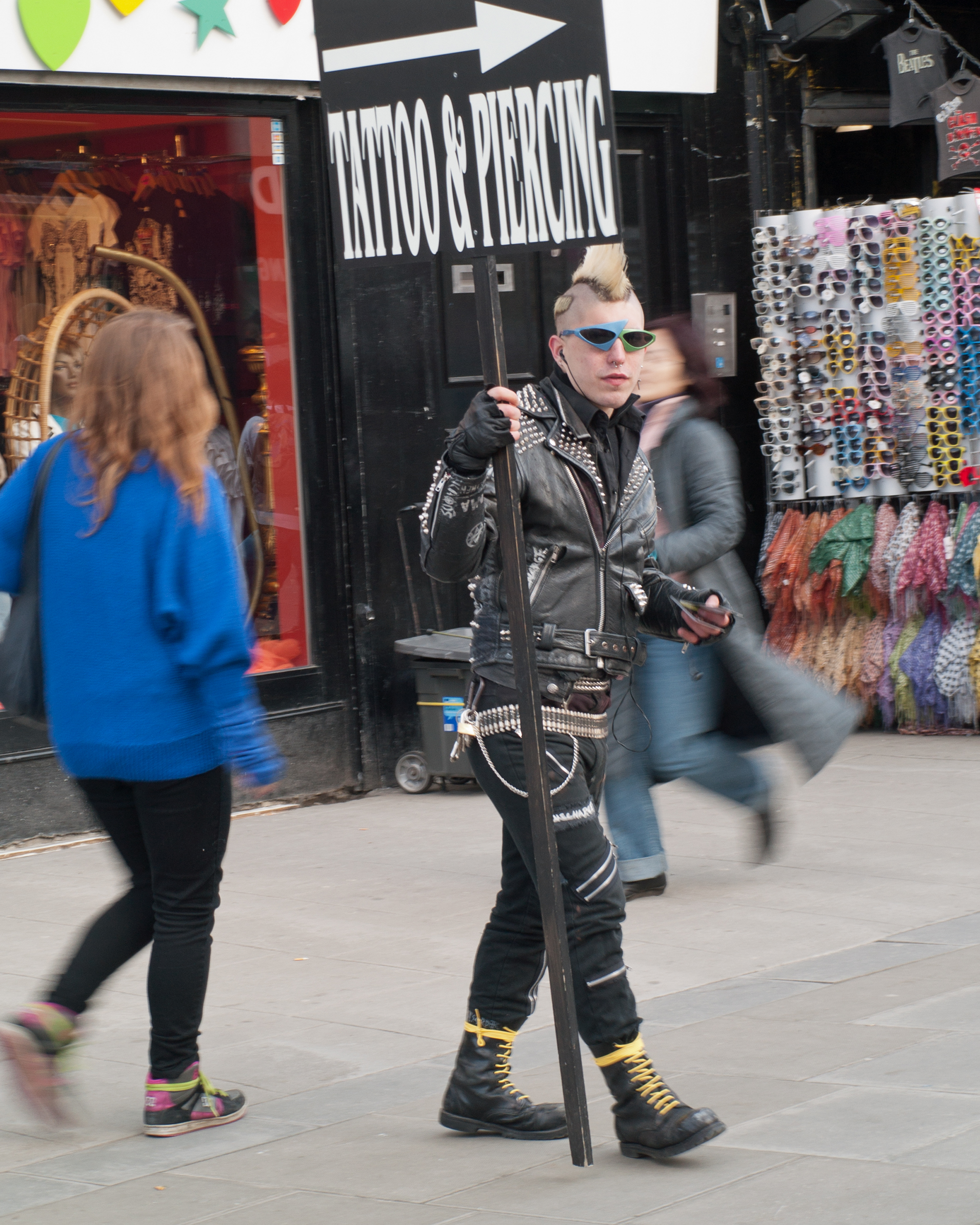 Street advertising for tatoo and piercing in Camden Town (London Borough of Camden, Greater London, United Kingdom)